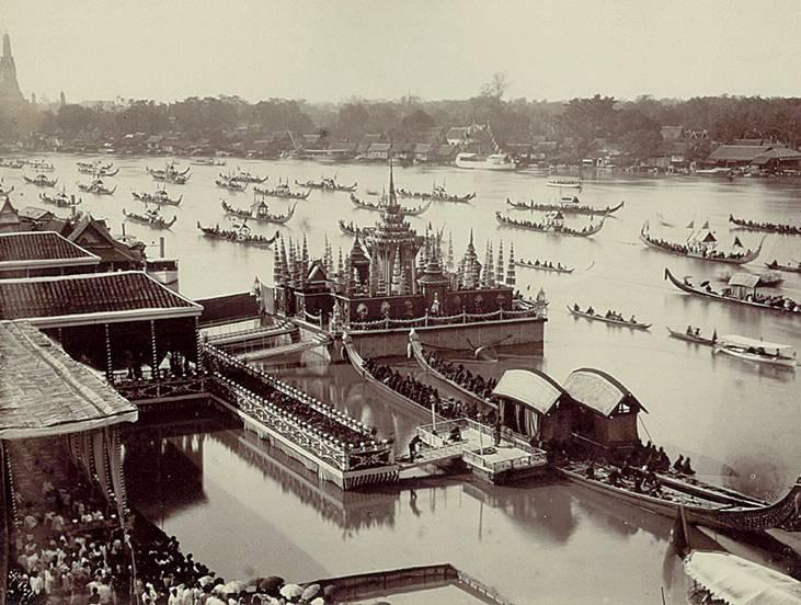 Aerial view of Chao Phraya River. The pavilion at the middle of river is used in Bathing Ceremony for Vajirunhit, son of Chulalongkorn who later died a young.